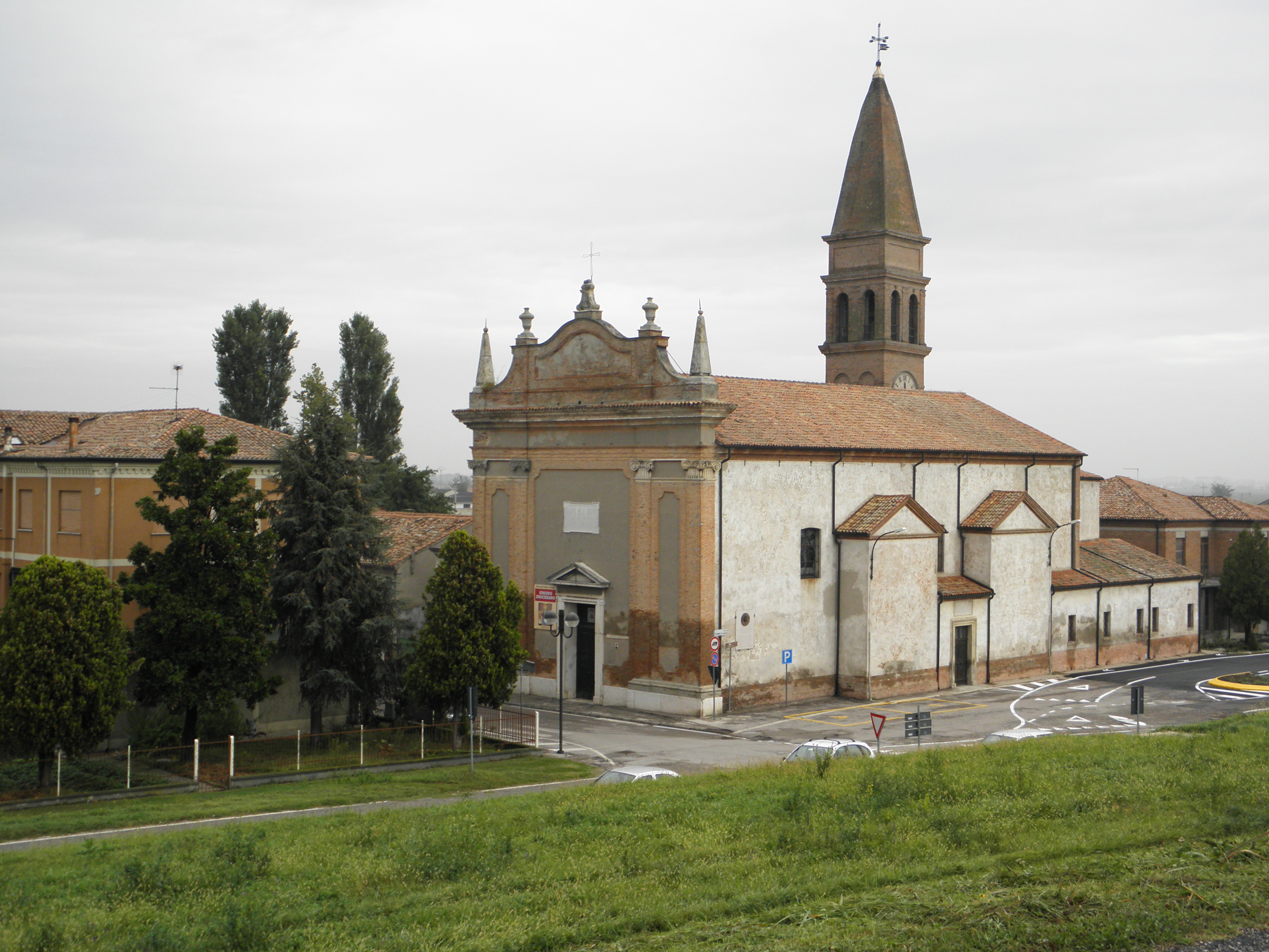 Saint Mary Church in Villanova Marchesana, province of Rovigo.